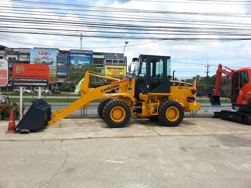 Mobile hydraulic loader